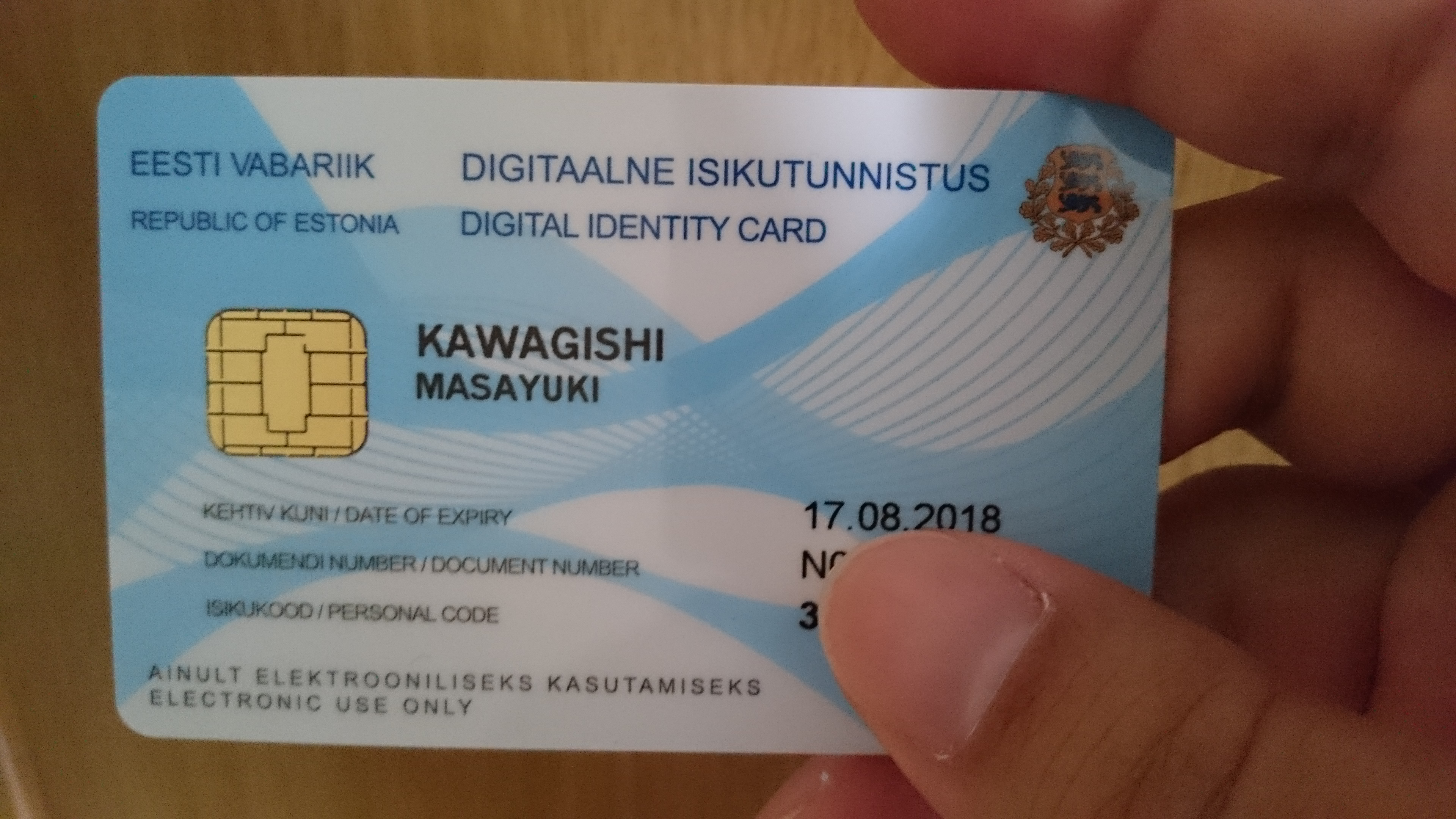 Digital identity card of electronic residence in Estonia